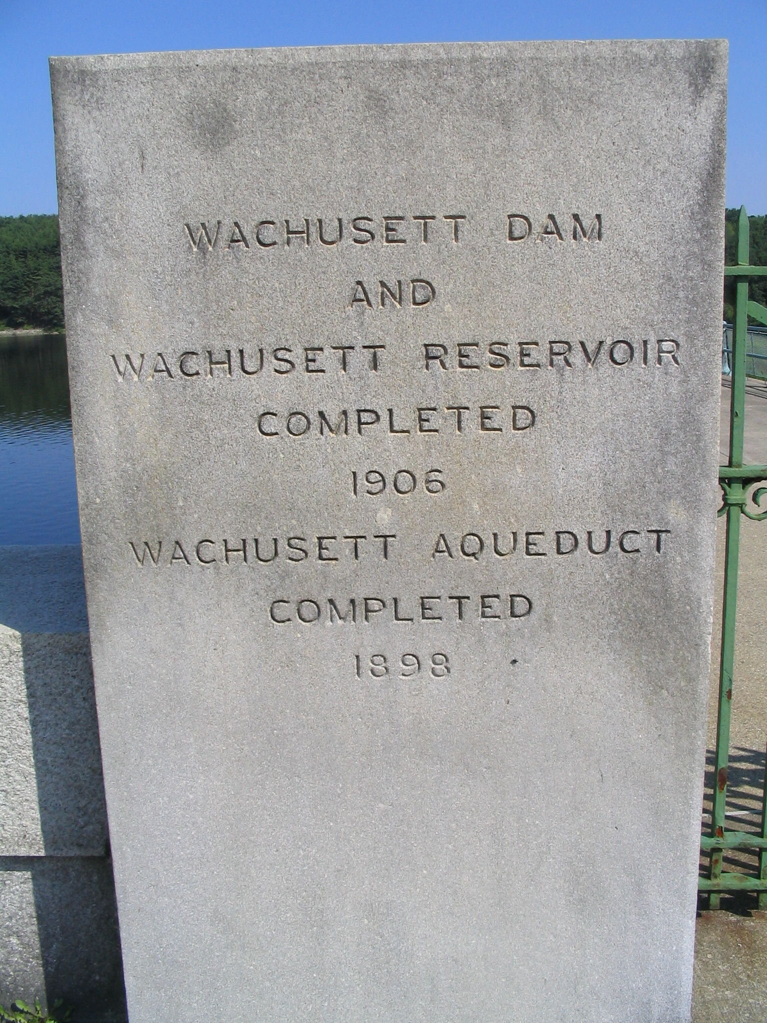 The plaque on Wachusett Dam, taken by Dale E. Martin, on July 3, 2006. WACHUSETT DAM AND WACHUSETT RESERVOIR COMPLETED 1906 WACHUSETT AQUEDUCT COMPLETED 1898